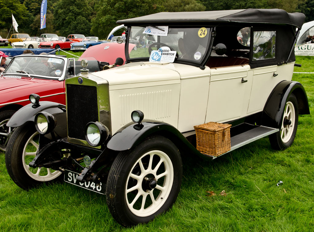 Morris Cowley 1925 (DVLA) manufactured 1925, 1465 cc Arley Hall Classic Car Show 23/09/2012